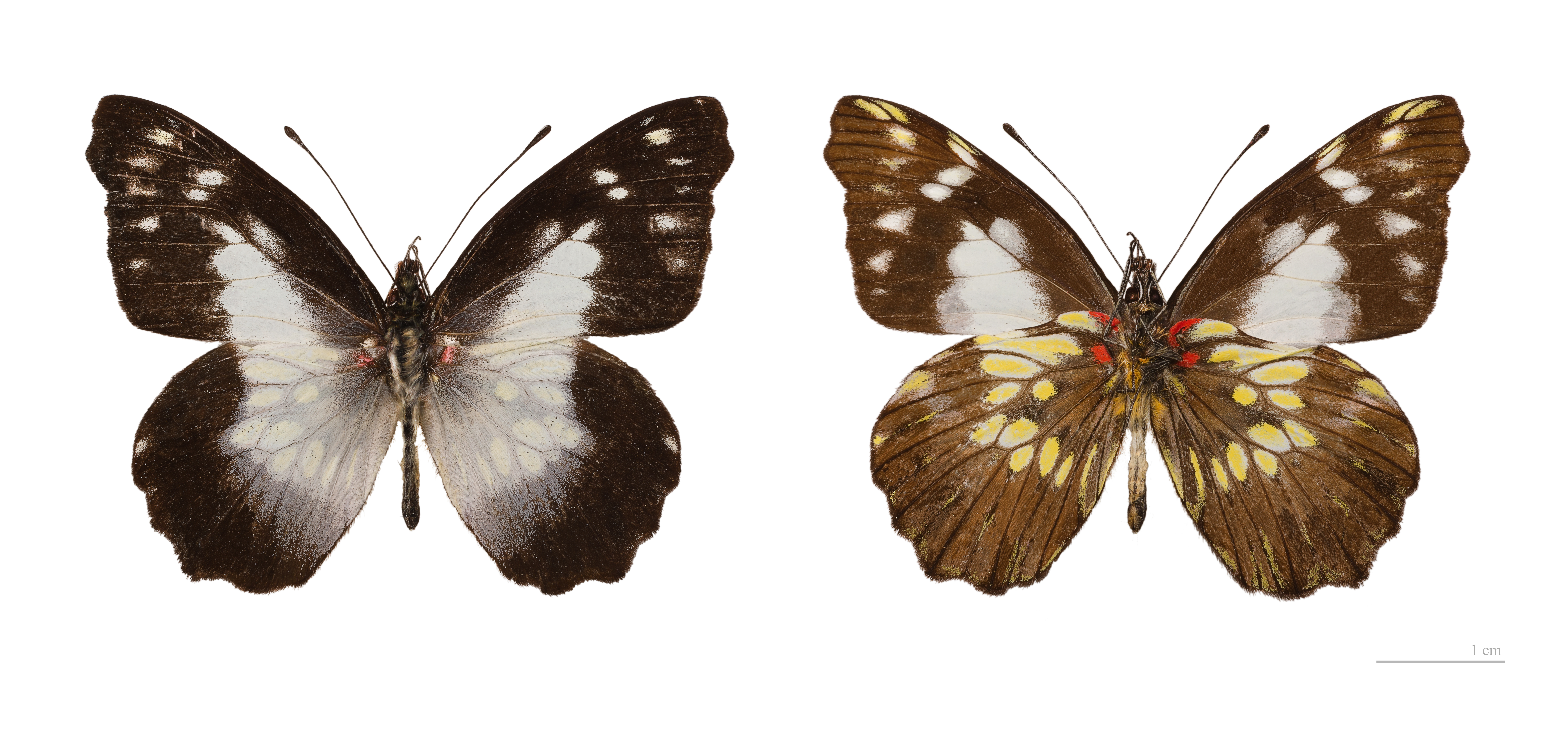 ♂ - Two views of same specimen Locality : Amazonas Region, North of Peru